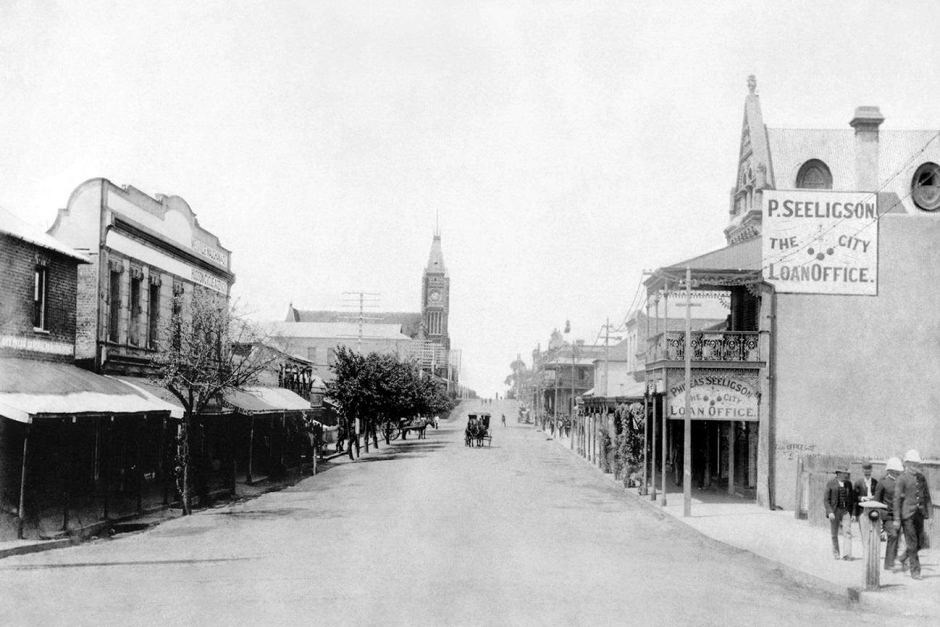 Barrack Street in Perth, circa 1894. Phineas Seeligson's building is on the right.